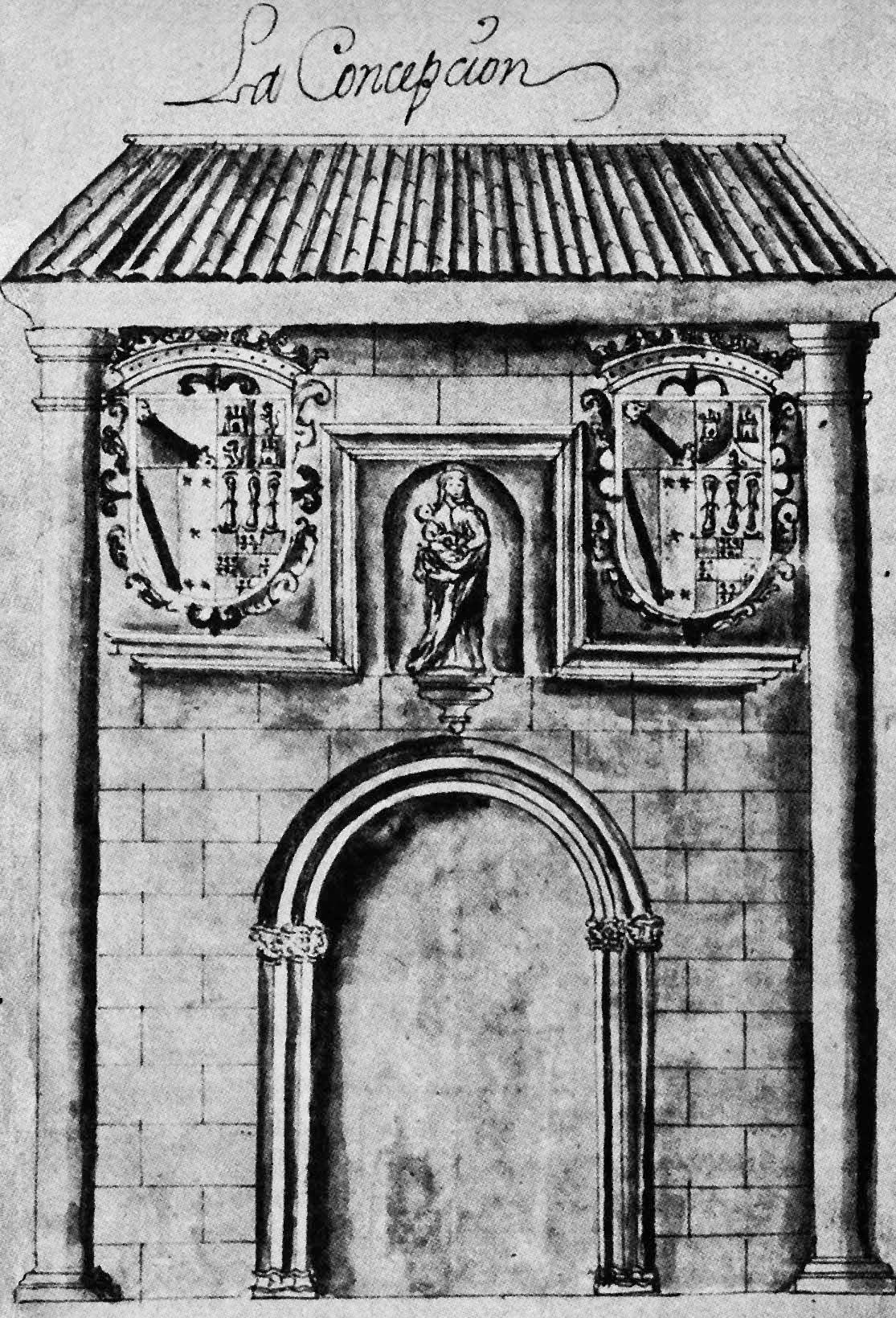 Drawing of the façade of the convent of the Conception in Valladolid (Spain) made by Ventura Pérez (n.1704) for the History of Valladolid work of the first quarter of the XVII century by the historian Juan Antolínez de Burgos.